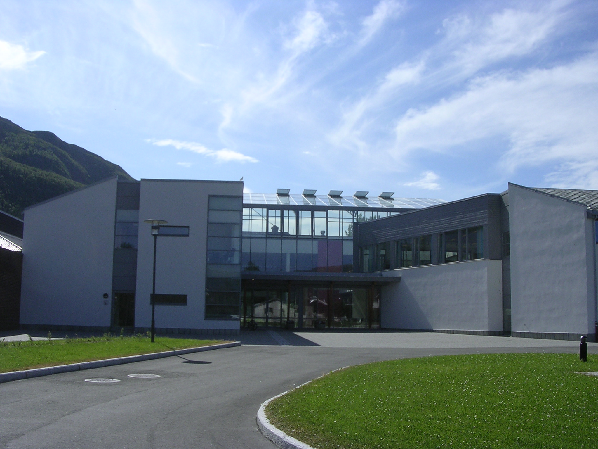 Nesna University, new wing